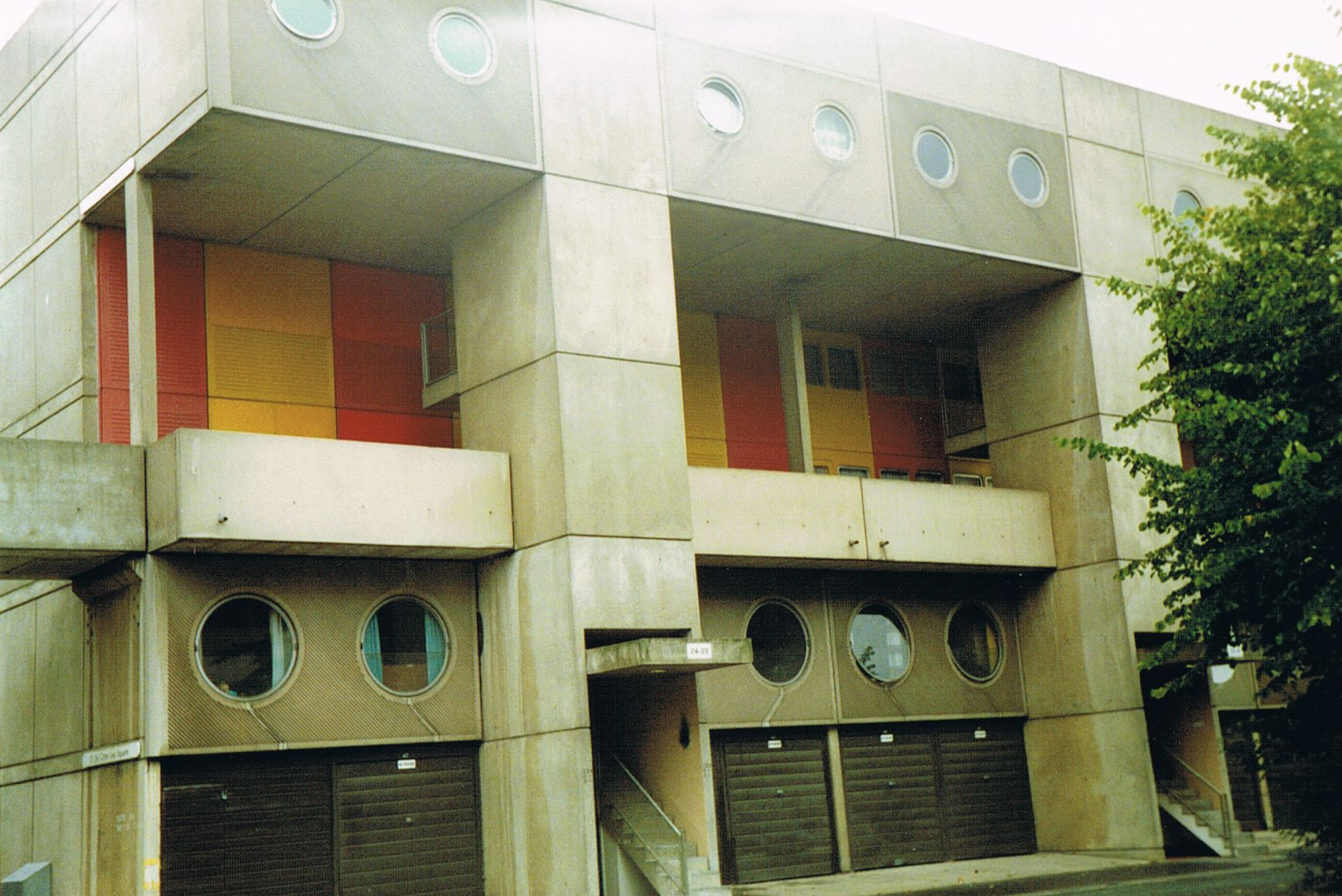 Photo of Southgate Estate in Runcorn, Cheshire, UK, taken in August 1989.